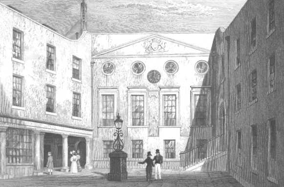 Apothecaries' Hall, Pilgrim St. Blackfriars.